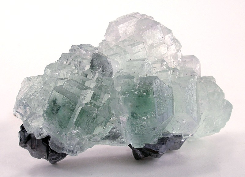 Fluorite, Galena Locality: Naica, Municipio de Saucillo, Chihuahua, Mexico (Locality at ) Size: small cabinet, 9.2 x 6.1 x 4.9 cm Fluorite on Galena Splendent crystals of galena, to 2.0 cm across, form the matrix for a cluster of gemmy, pastel green fluorite crystals, to 3.75 cm across. The fluorite cubes modified by octahedral faces exhibit the stepped growth for which Naica is famous. Only the slightest peripheral contact has been noted. This is a very nice example of what Naica can produce, and the spread-out physical arrangement makes it a lot of "bang for the buck" in terms of visual appeal. MORE colorful, MORE gemmy, in person. This piece actually has a pleasing green color that is better tha most here, fairly intense for Naica, that is dimmed in the photos because of the transparency of the large fat crystals.